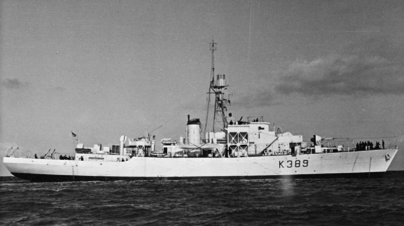 HMS Knaresborough Castle Stationary.